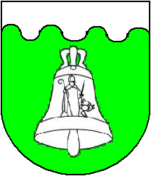 Coat of arms of the municipality of Unterschächen, Canton of Uri, Switzerland